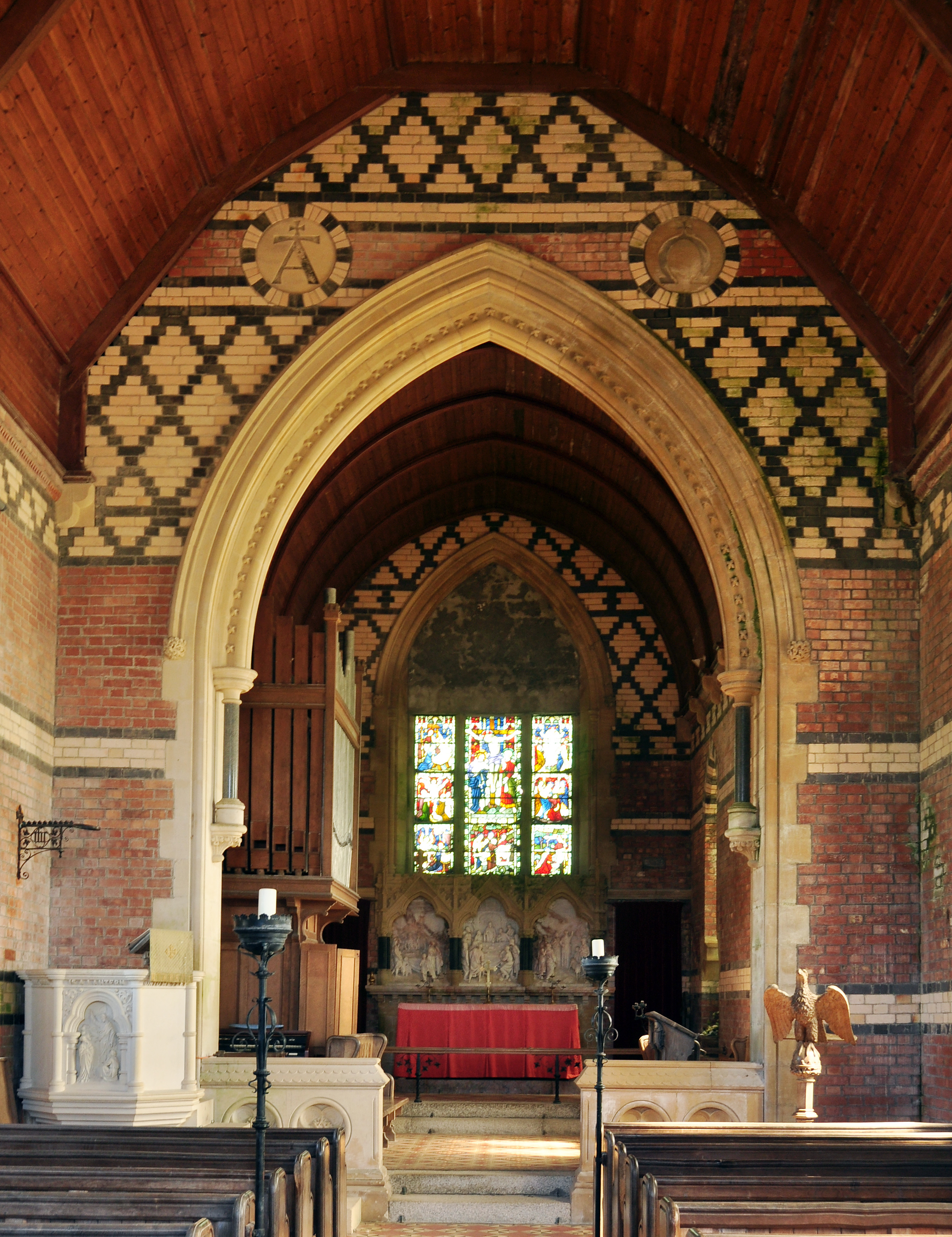 The interior of St Helena's church on Lundy, UK. This view is of the east end of the church, which is actually to the south-east.